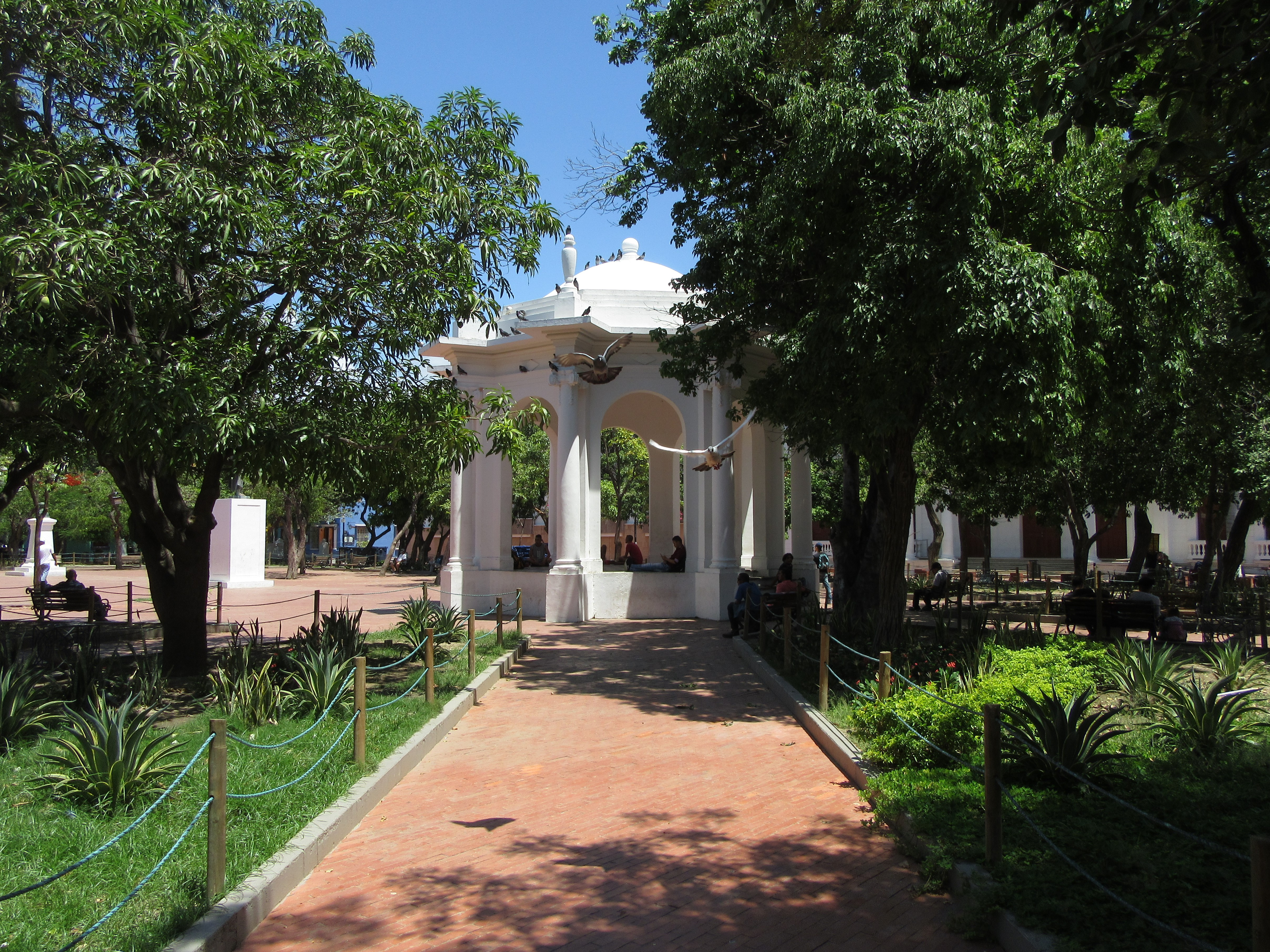 Santa Marta